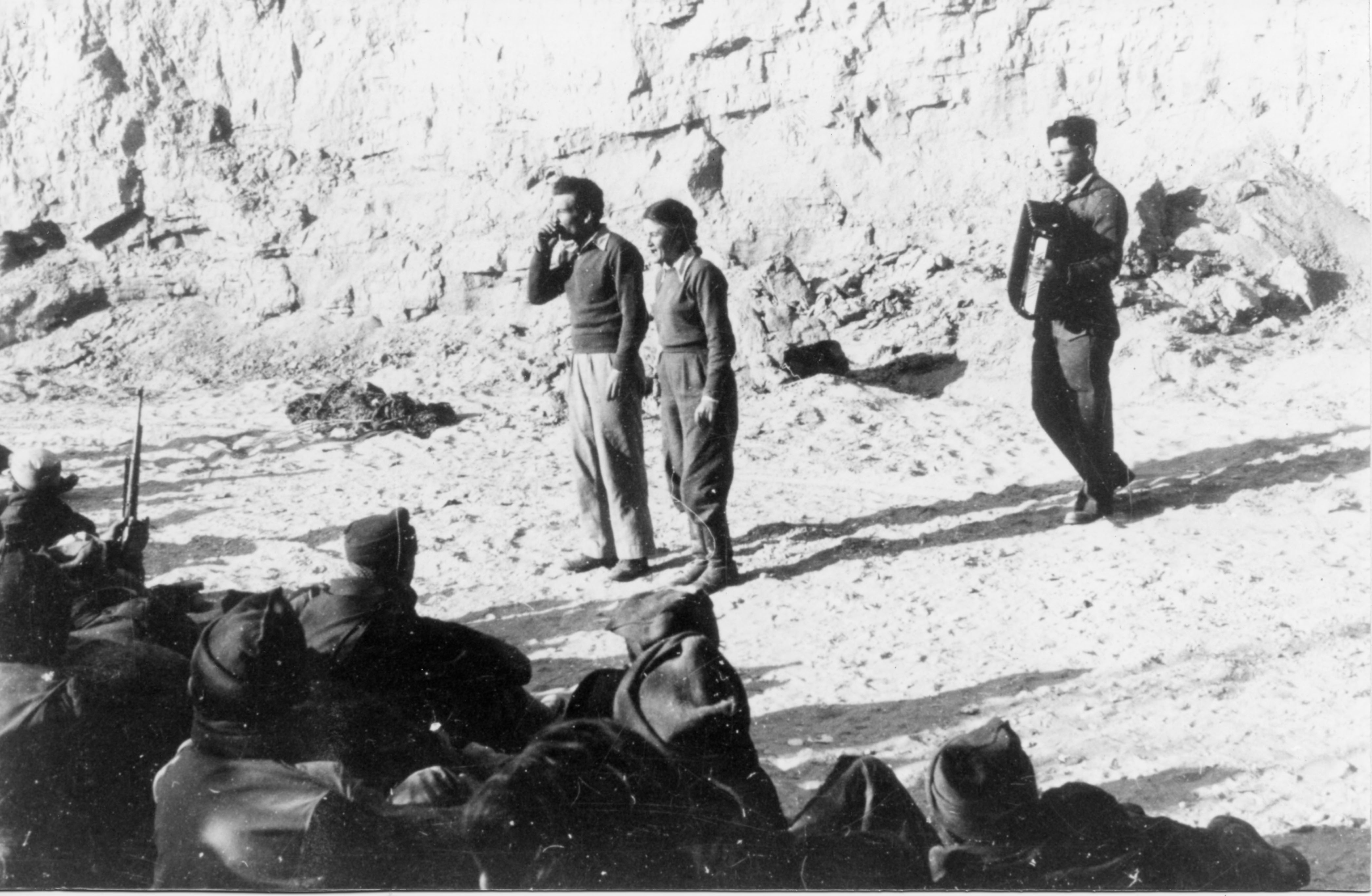 The Palmach, Israel Defense Forces